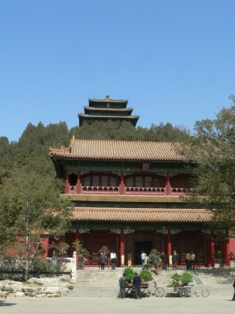 Gate in Jingshan Park — in Beijing.